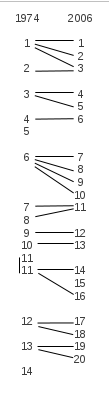 Variants by section between versions 1974 and 2006 of Alice Munro's story "Home"